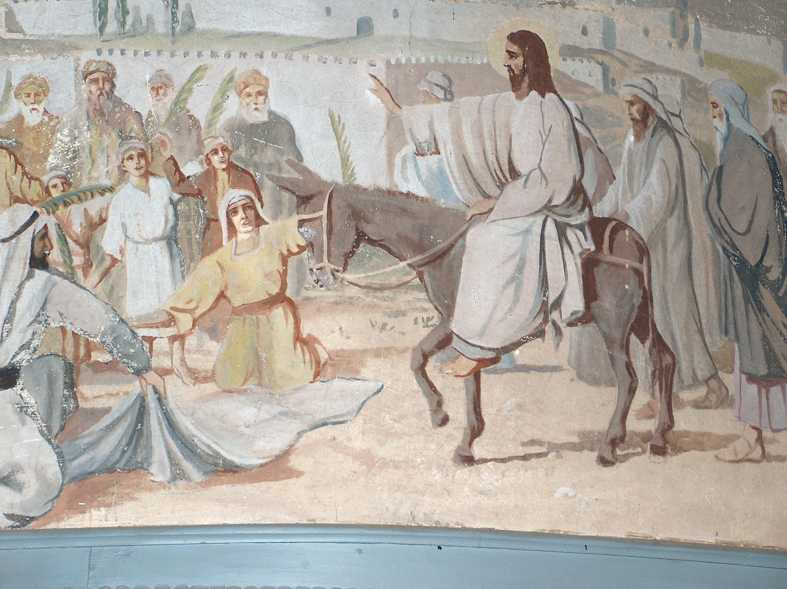 Oriahovica.church.02